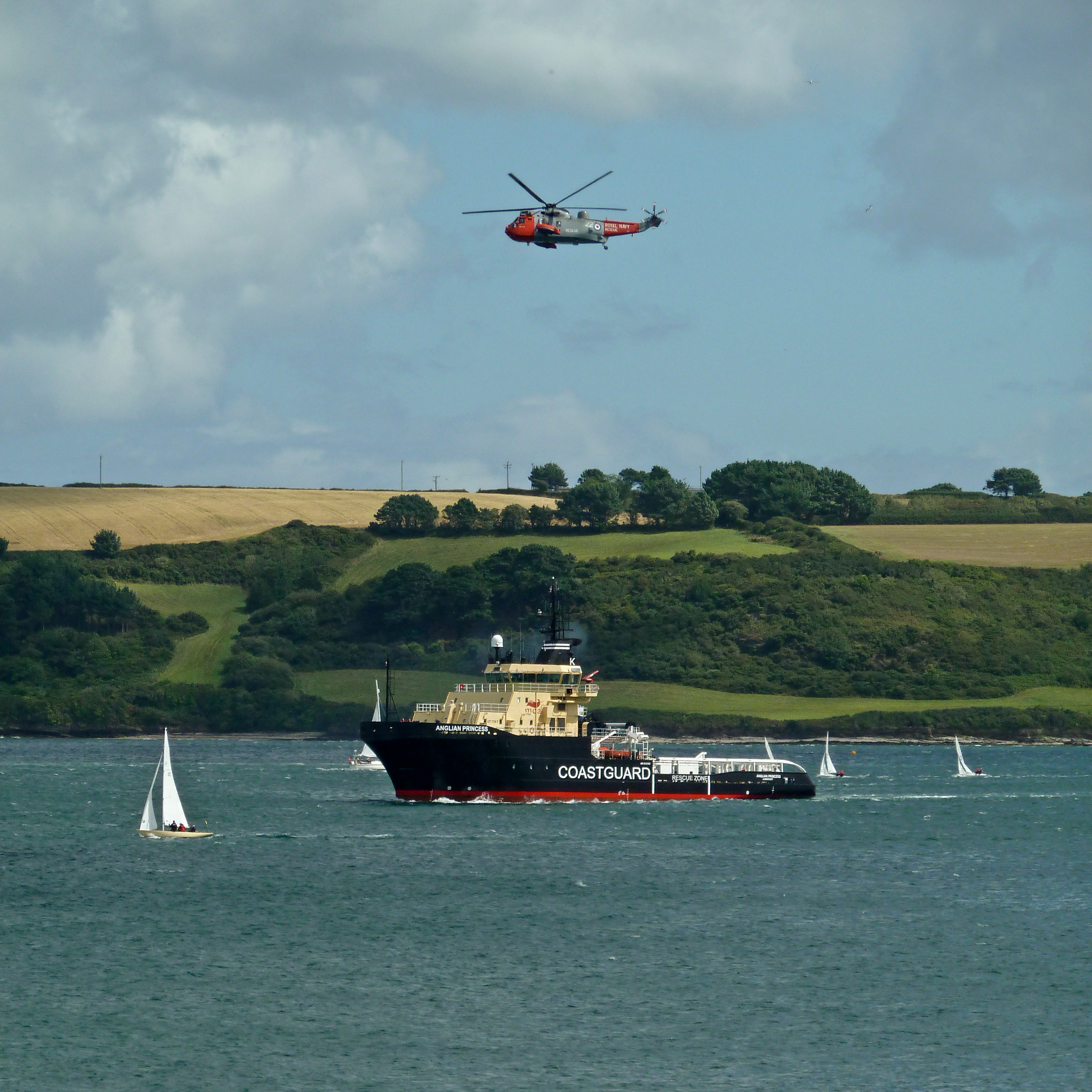 Emergency Tow Vessel Anglian Princess and Royal Navy Search and Rescue Helicopter #22 in Carrick Roads